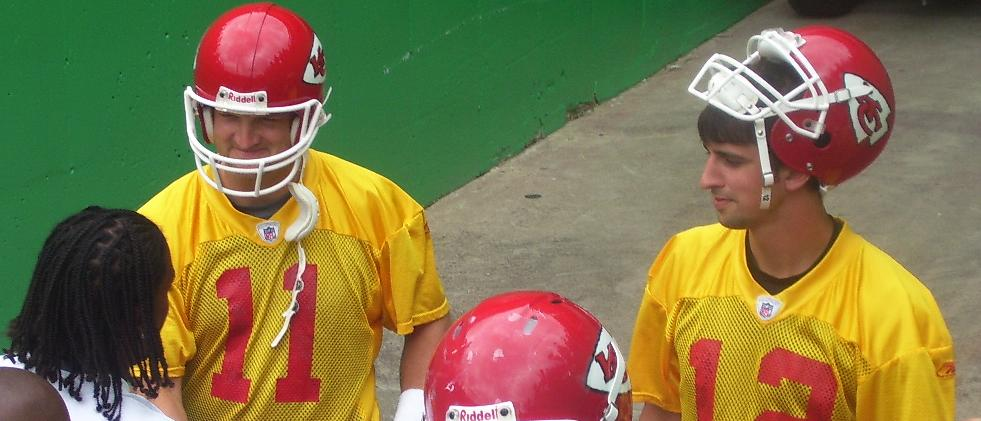 Damon Huard and Brodie Croyle of the Kansas City Chiefs at a free mini camp open to the public at Arrowhead Stadium